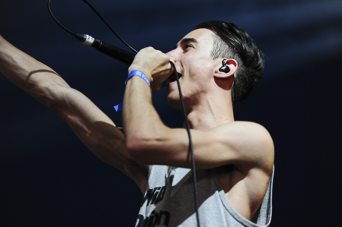 Parklife Festival 2012